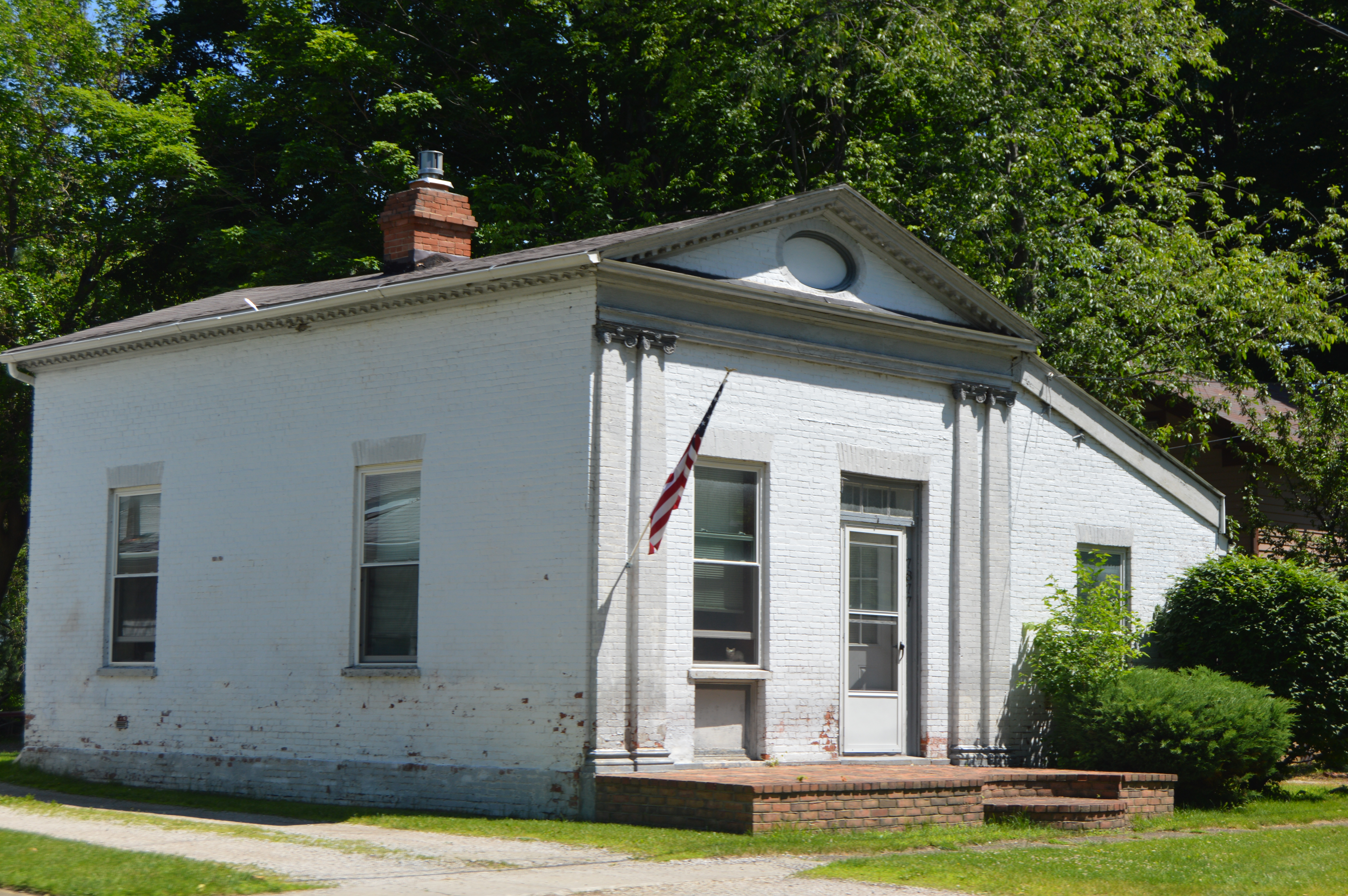 Front and western side of the former Connecticut Land Company Office, located at 7877 E. Main Street (State Route 84) in Unionville, Ohio, United States. Built in 1817, it is listed on the National Register of Historic Places.